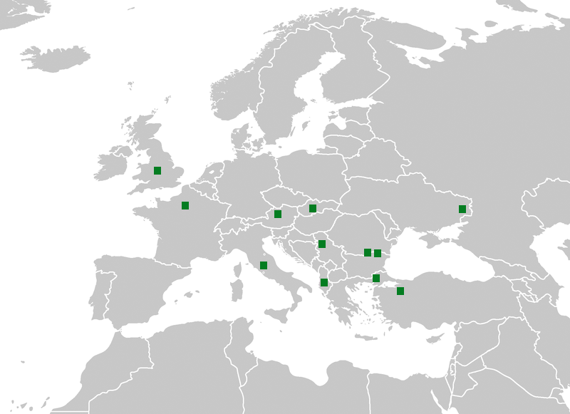 Dunaujvaros, Hungary